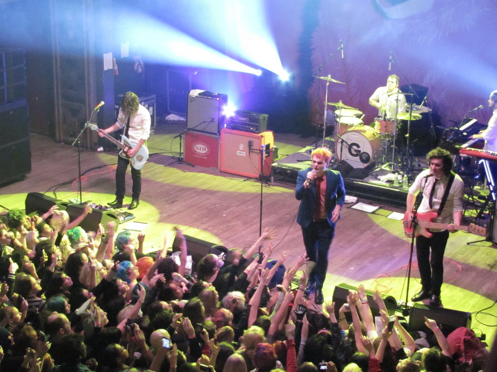 Gerard Way and his support band, The Hormones, performing at the Webster Hall in New York, United States, on October 23rd, 2014.